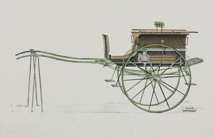 Print. One of a series of designs for various types of horse-drawn transport by J & C Cooper published in the Coachbuilders and Wheelwrights' Art Journal.